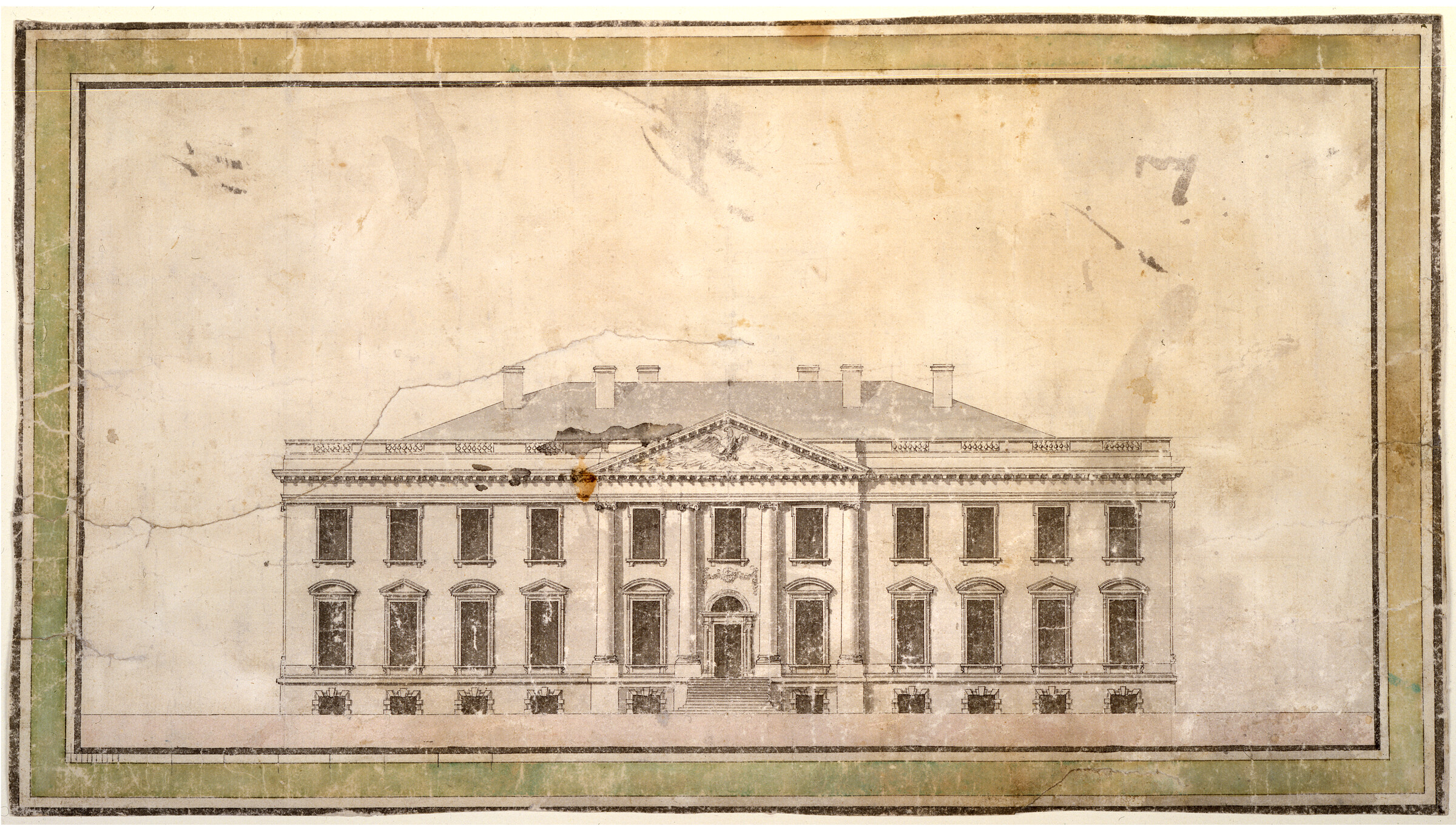 Elevation of the north side of the White House, by James Hoban, c. 1793. Progress drawing after having won the competition for architect of the White House. Collection of the Maryland Historical Society.